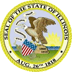 The Illinois state seal.